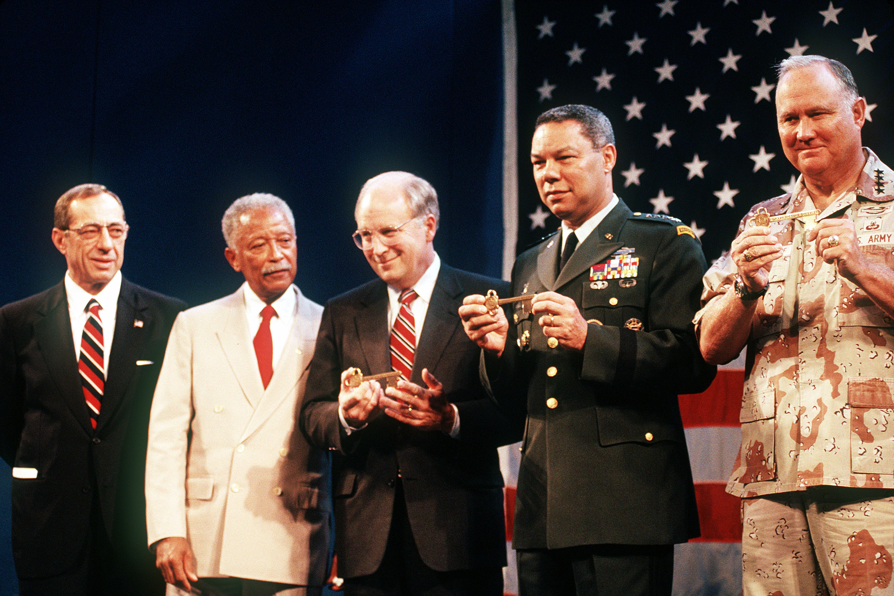 New York Governor Mario Cuomo, far left, gave awards to Secretary of Defense, Richard Cheney; GEN. Colin Powell, Chairman Joint Chiefs of STAFF; and GEN. Norman Schwarzkopf, Commander, U.S. Central Command, prior to the Welcome Home celebration for Desert Storm forces. David Dinkins, mayor of New York City is 2nd from left .